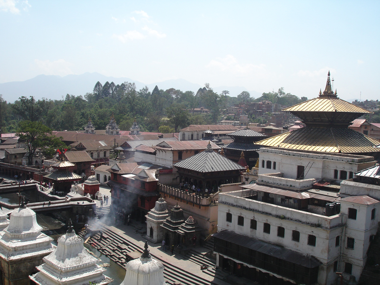 copyright santoshkc